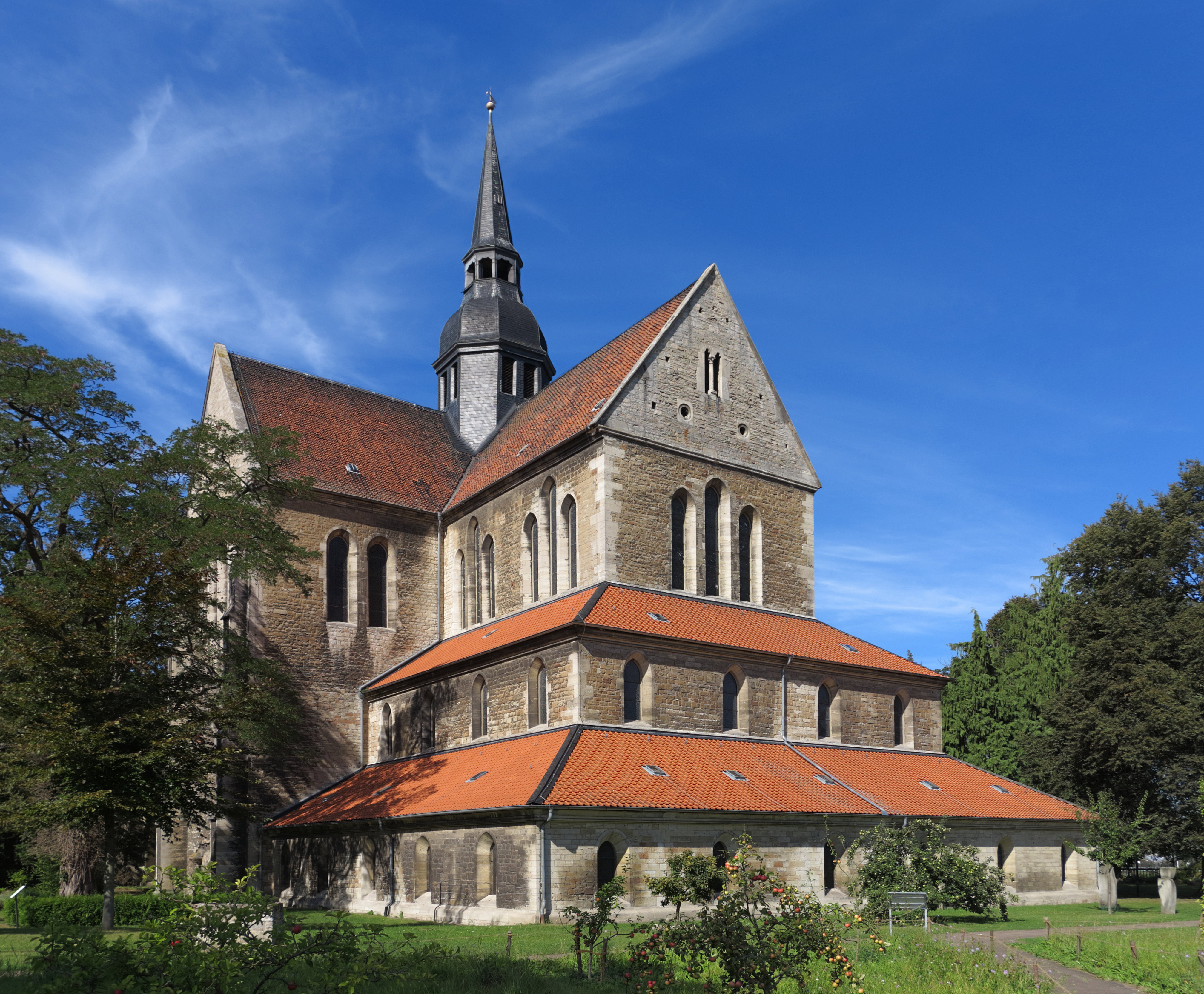 Braunschweig, Germany: Riddagshausen monastery church